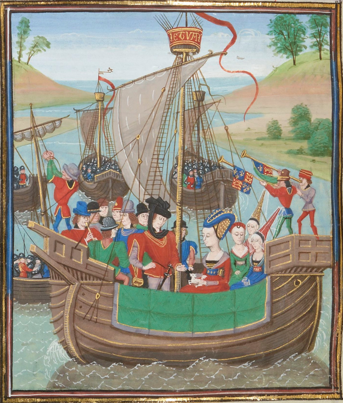 Isabelle of France sails back to England.